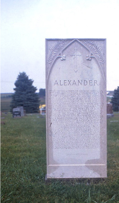 photo by Einar Einarsson Kvaran aka Carptrash 23:34, 25 October 2006 (UTC). Hartley Burr Alexander composed the text for this tombstone located in Syracuse, Nebraska, while the sculptured elements were done by Lee Lawrie